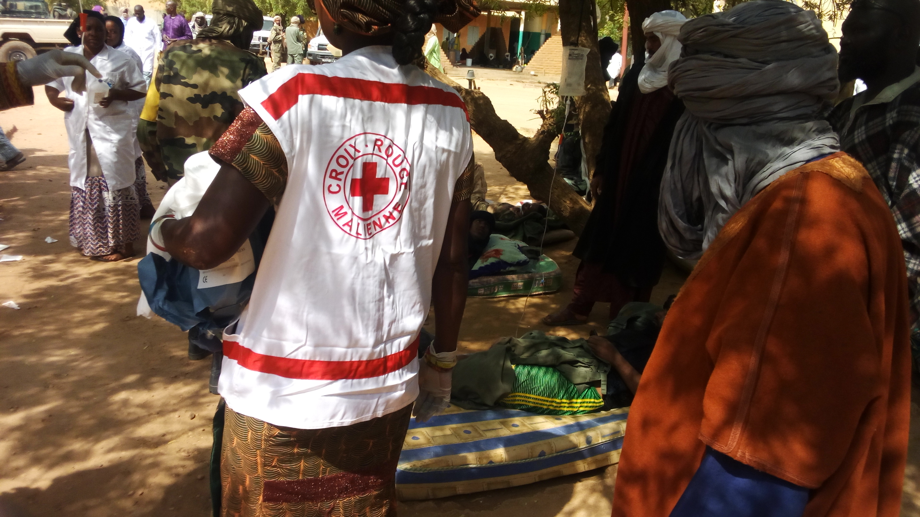 Malian Red-Cross after the Gao terrorist attack on 18 January 2017